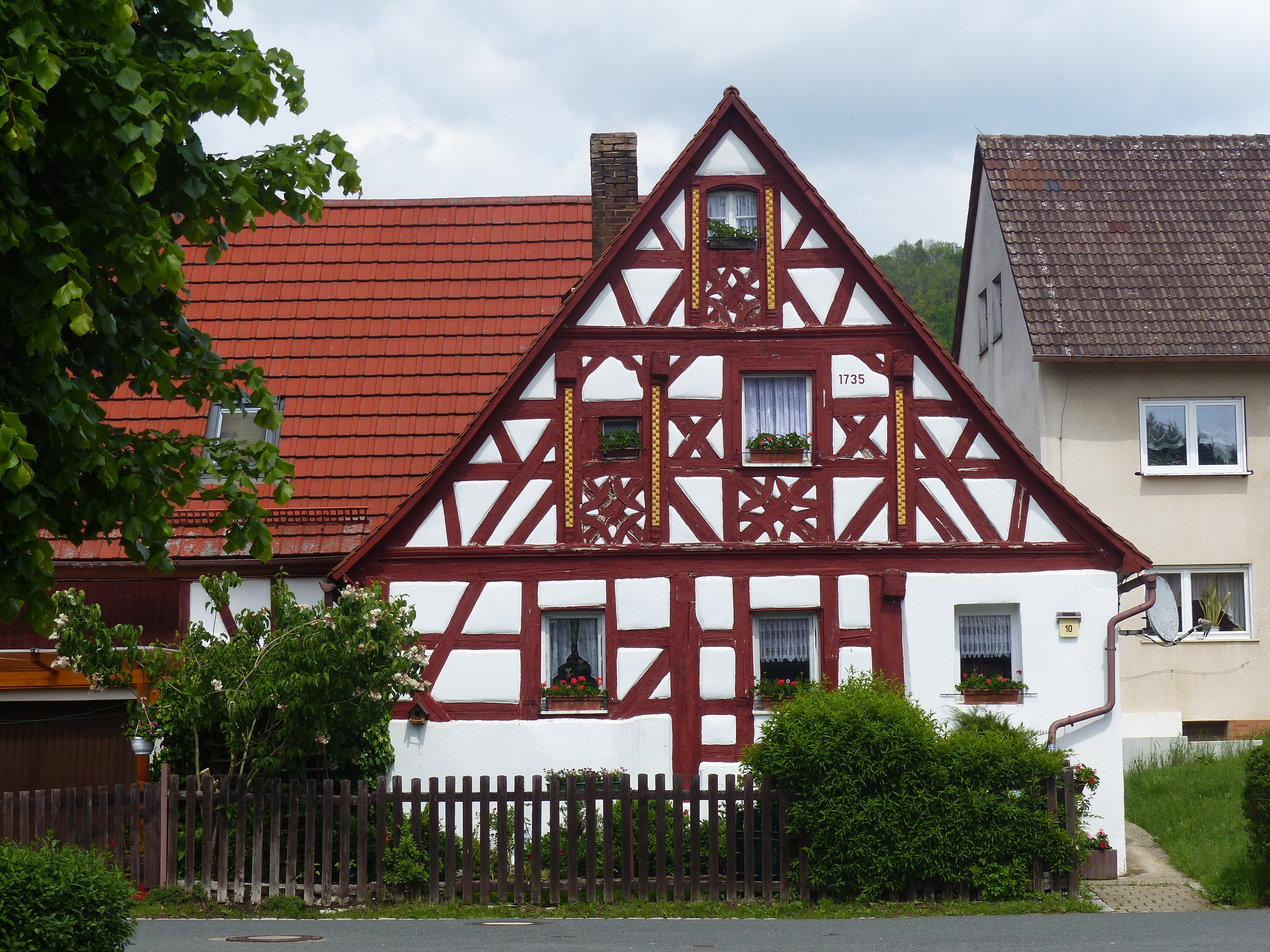 A farmhouse in the village Dachstadt, a district of the municipality of Igensdorf